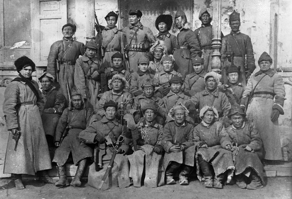 Mongolian People's Revolutionary Army soldiers and Soviet commanders in 1920s